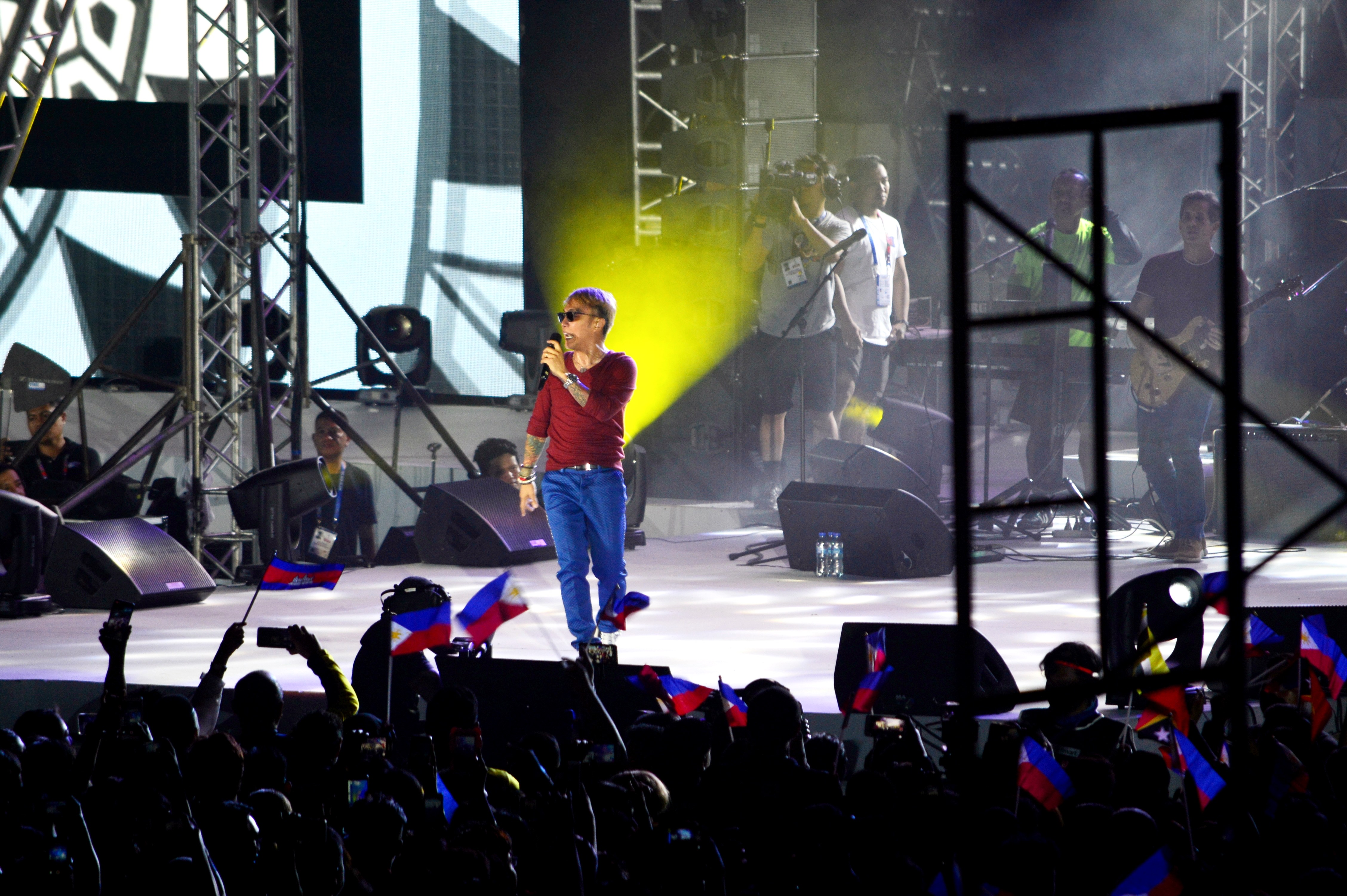 Journey lead singer Arnel Pineda performing at the Closing Ceremony of the 30th SEA Games. (Carmela Jane F. Villar/PIA 3)